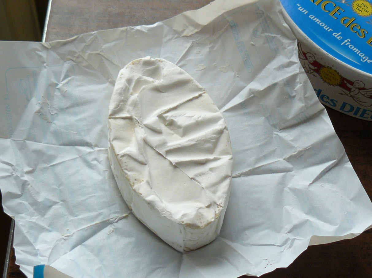 Caprice des Dieux. French cheese.